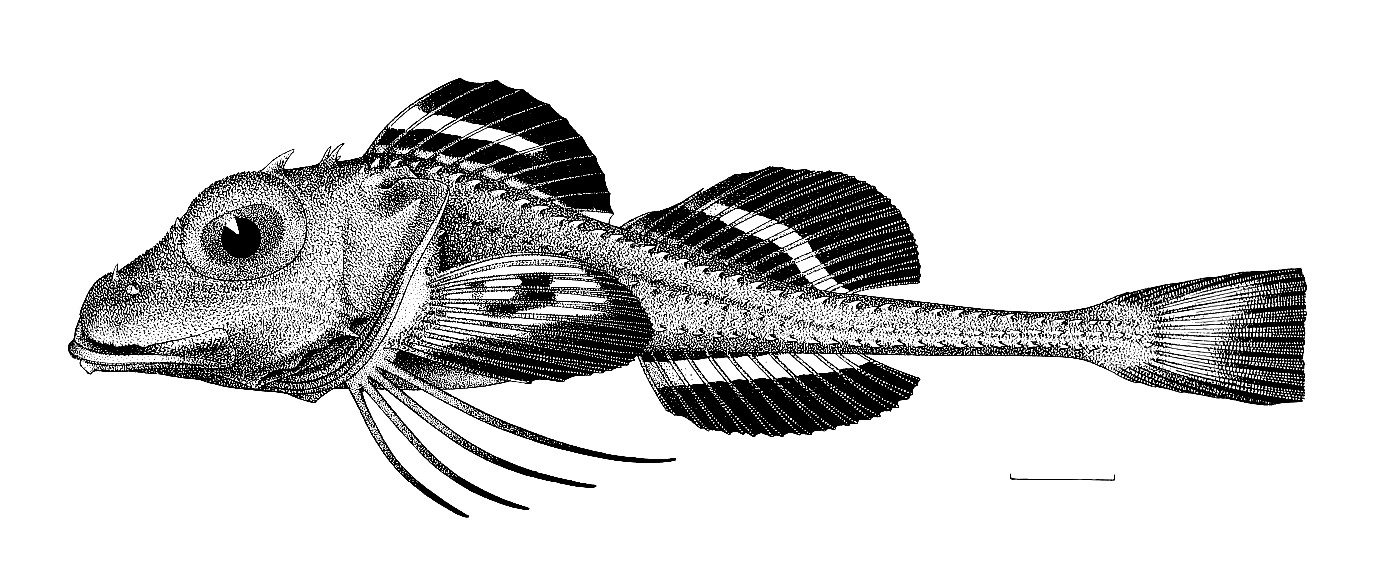 Ereunias grallator (Scorpaeniformes: Ereuniidae).